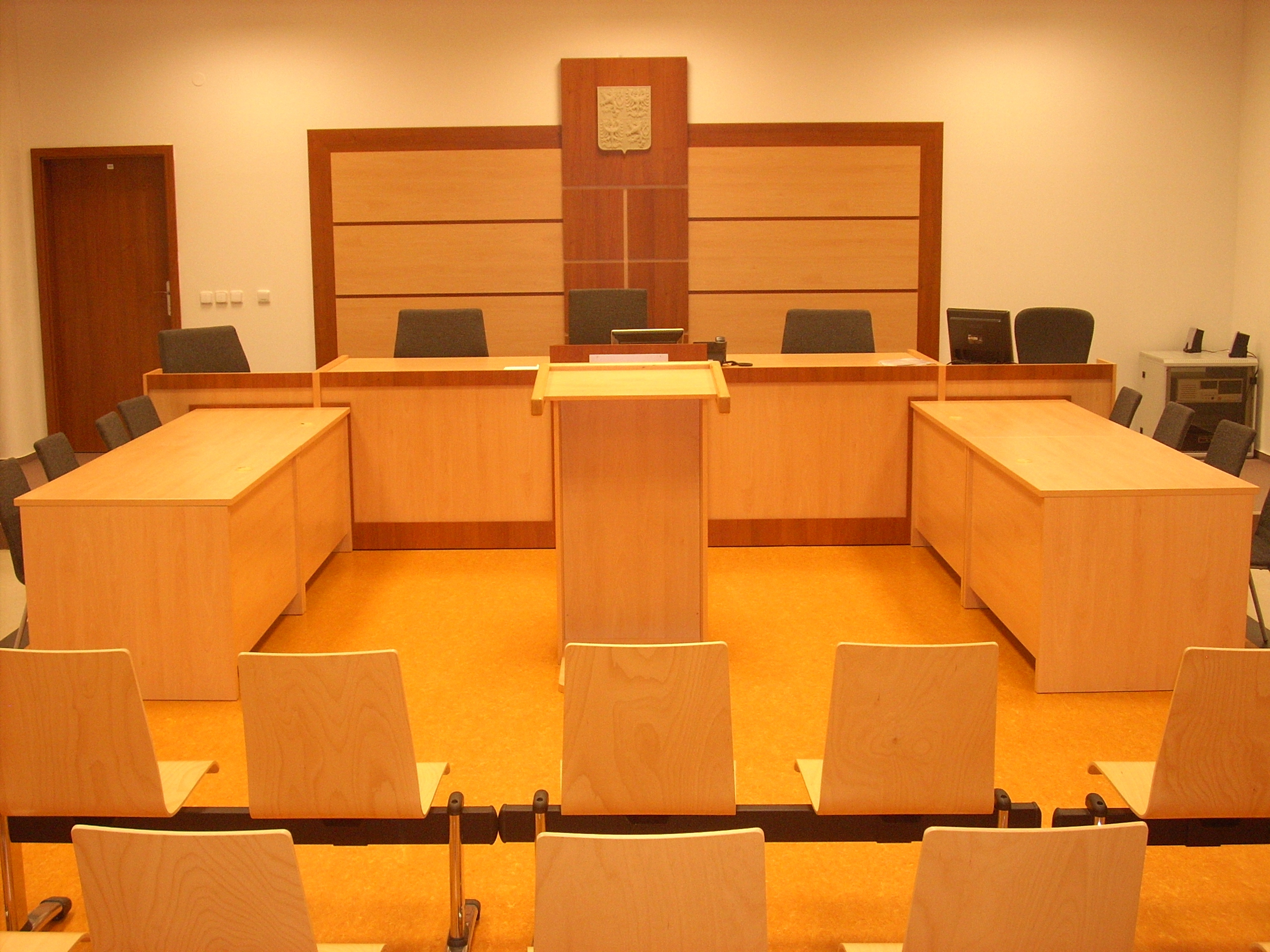 Courtroom used during civil trial, District Court in Jihlava